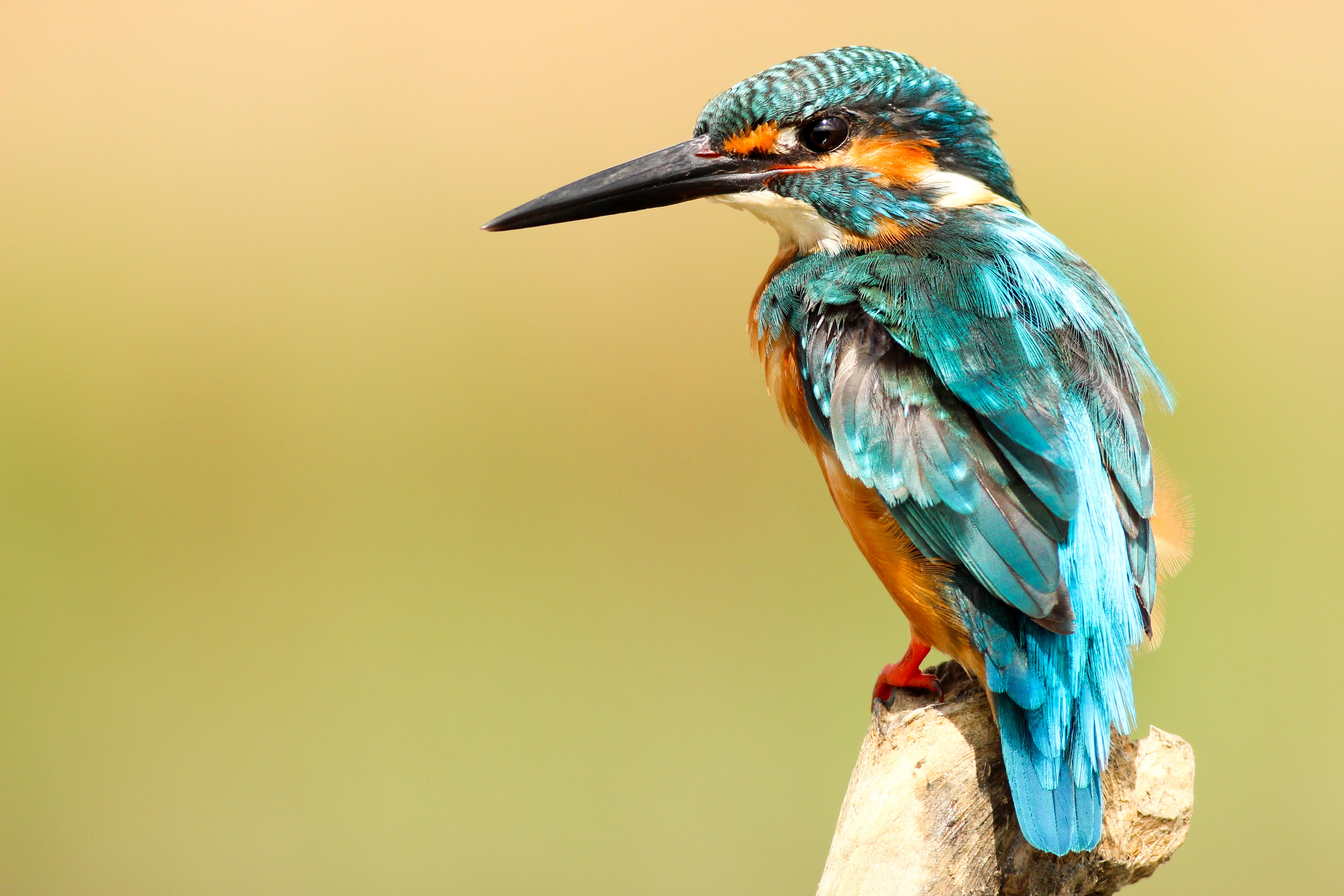 Common Kingfisher Alcedo atthis bengalensis, Hunei District, Taiwan